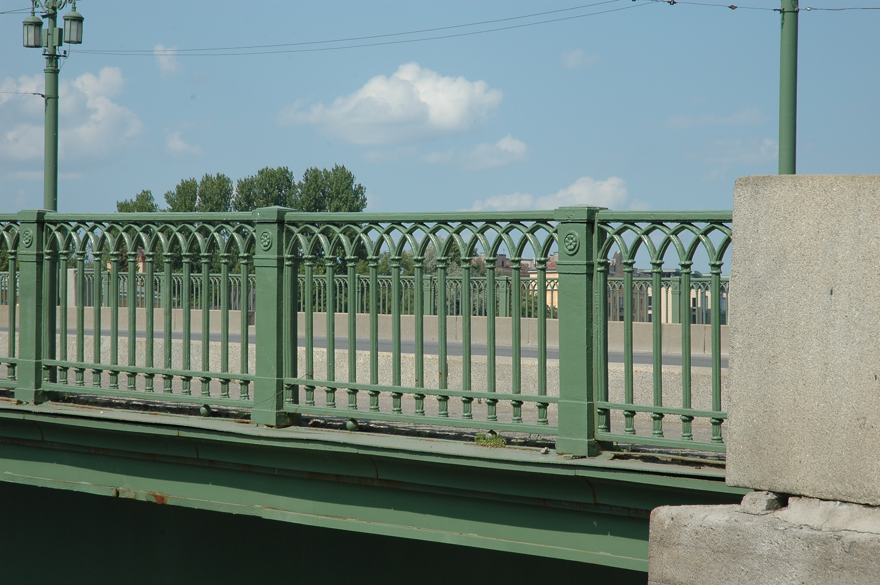 Bolshoi Krestovskii bridge across Malaia Nevka in St Petersburg, fence